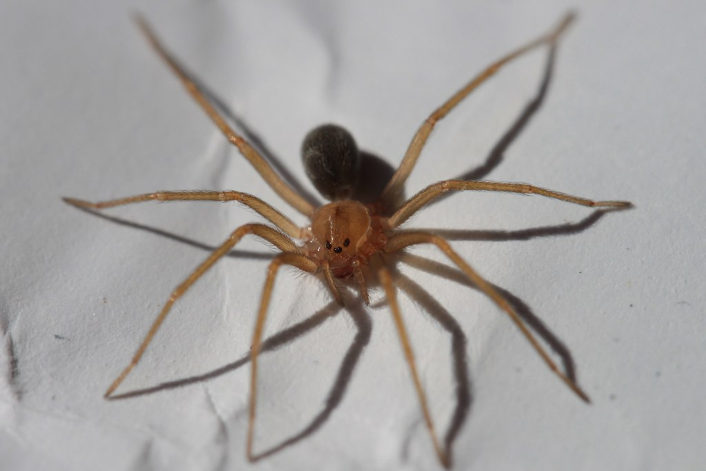 Recluse spider shot in Santa Catarina - Brazil